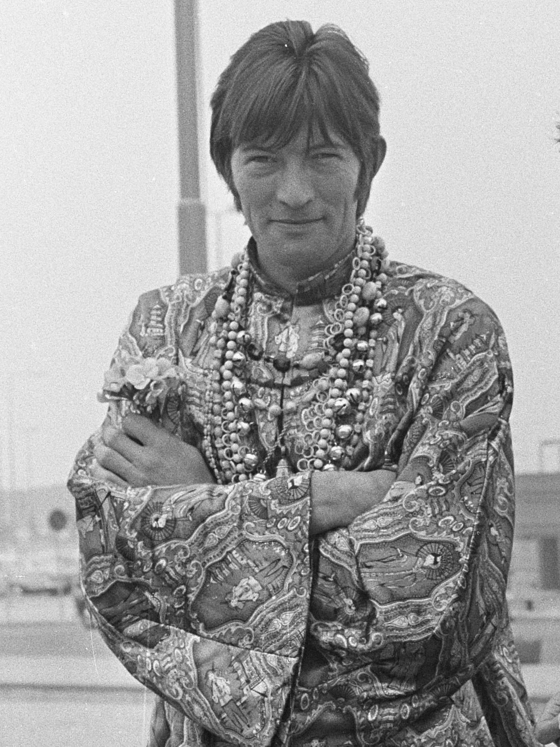 Dave Berry at Schiphol Airport, 11 Sept. 1967